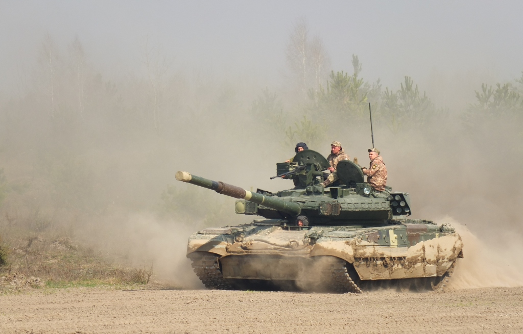 Ukrainian training before Strong Europe Tank Challenge